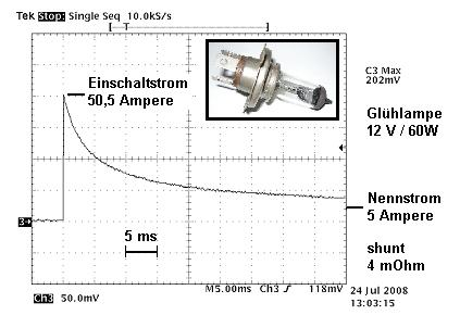 inrus current of a 12V /60W incandescent lamp